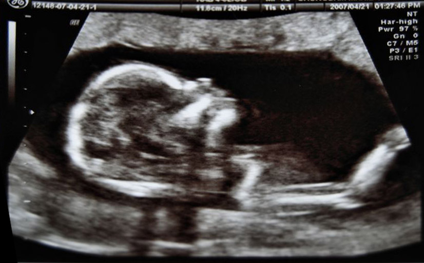 You can see his eyes, nose and mouth in this up close picture. He's 14 weeks, 7.75 cm.